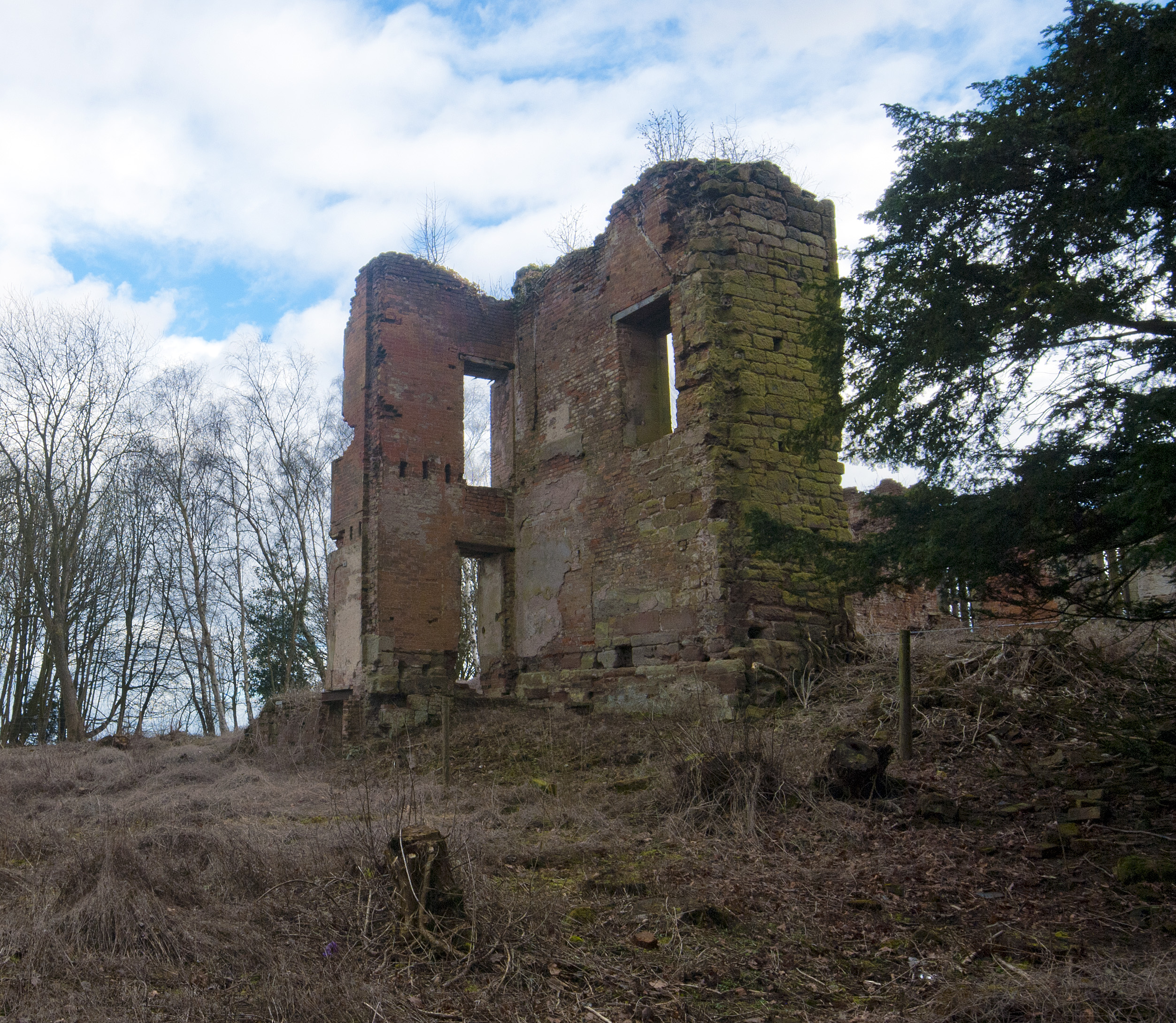 Some of the remaining ruins and viewed from the north.